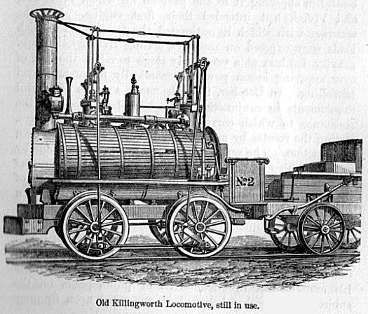 A locomotive constructed for the Killingworth Colliery by George Stephenson in 1816. A number were constructed and were crucial in convincing many people of the viability of the engine for the Stockton and Darlington and later for the Liverpool and Manchester Railway.